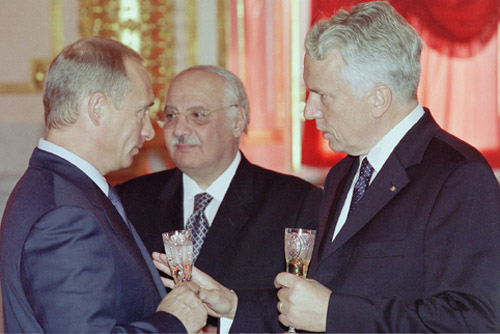 THE KREMLIN, MOSCOW. President Putin with Hans Friedrich von Pletz (right), Ambassador of the Federal Republic of Germany, after a ceremony for presenting credentials.